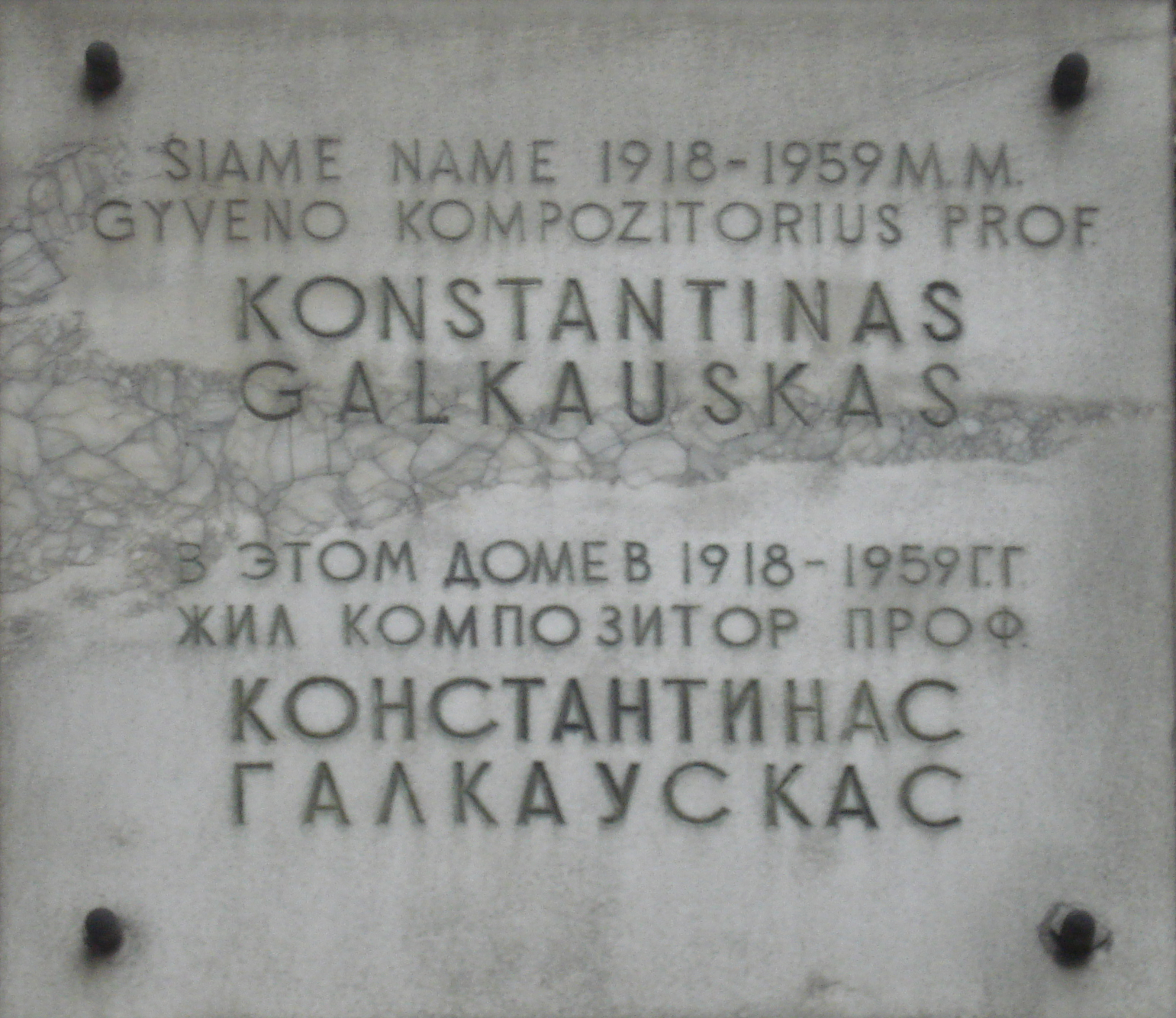 Memorial tablet on the wall of house in Vilnius (Pylimo g.) where composer Konstantinas Galkauskas lived